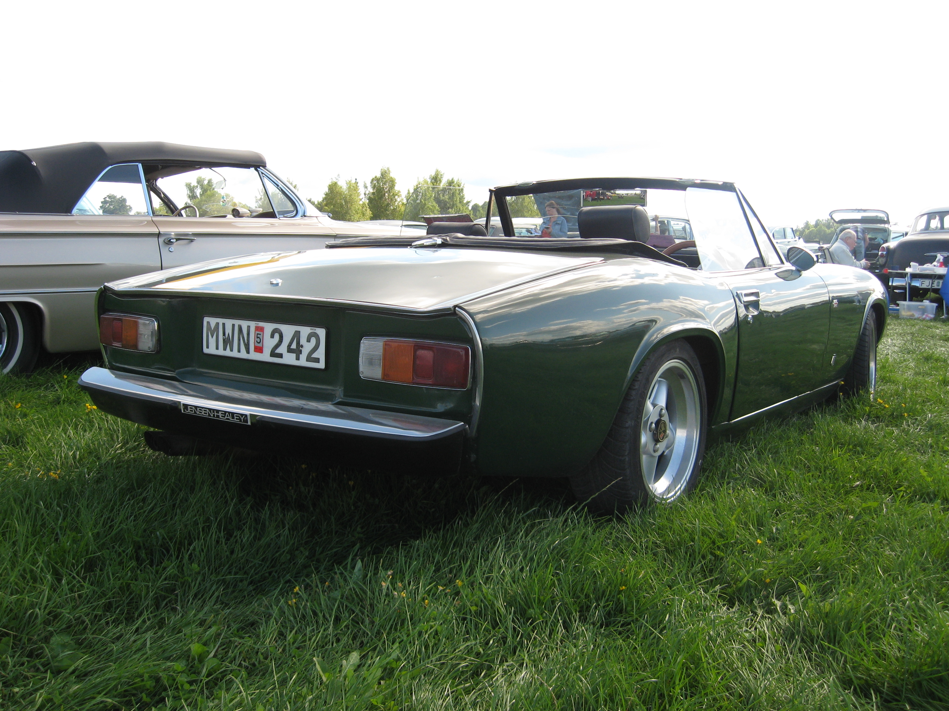 Jensen-Healey